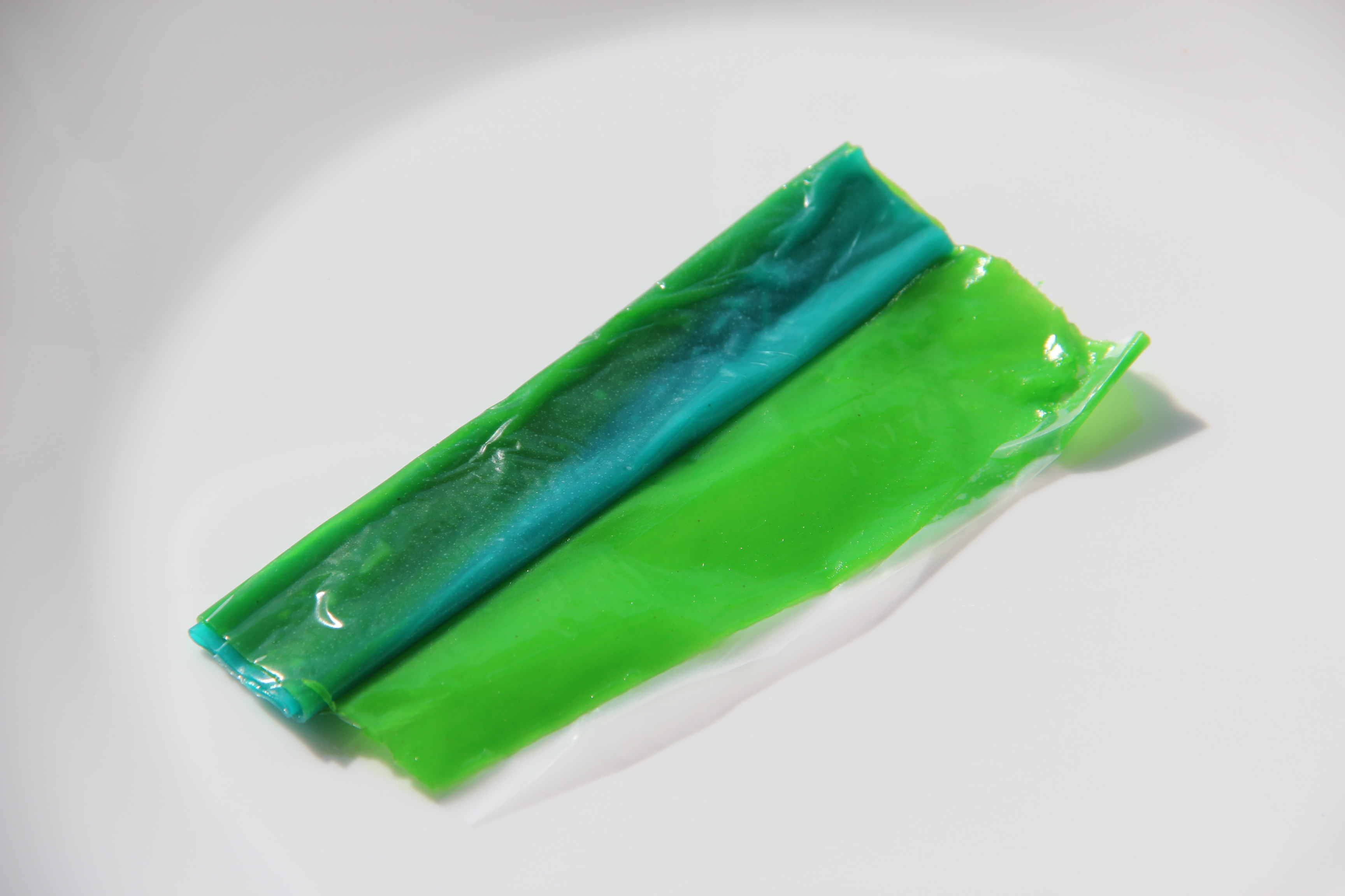 A piece of Fruit Roll-Up